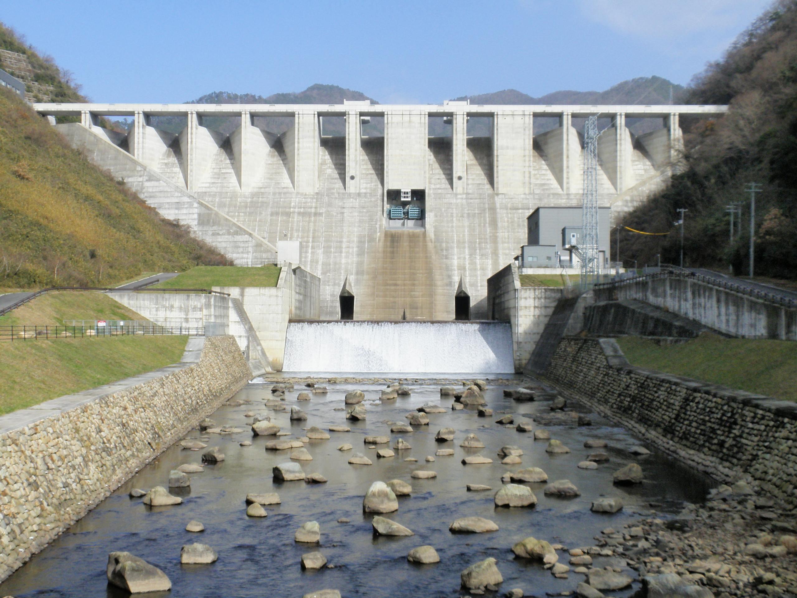 Tomata Dam on the Yoshii river, Kagamino, Okayama.